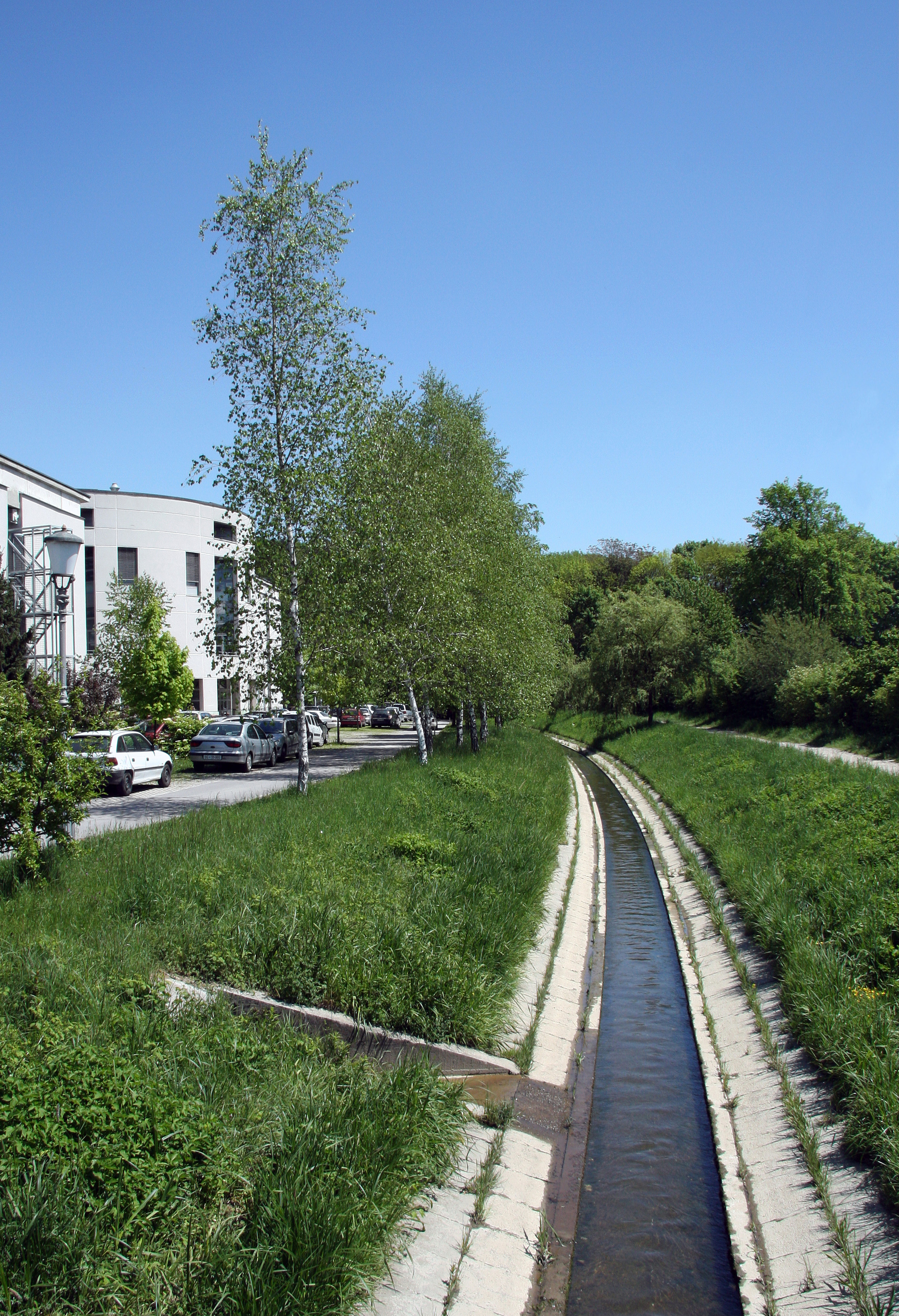 Glinščica Creek in Ljubljana. The building on the left is the Biology Department of the Biotechnical Faculty, University of Ljubljana (Slovenia) and the National Institute of Biology.